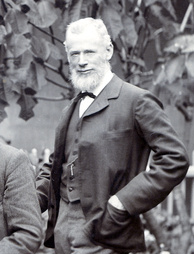 Australian naturalist George Arthur Keartland